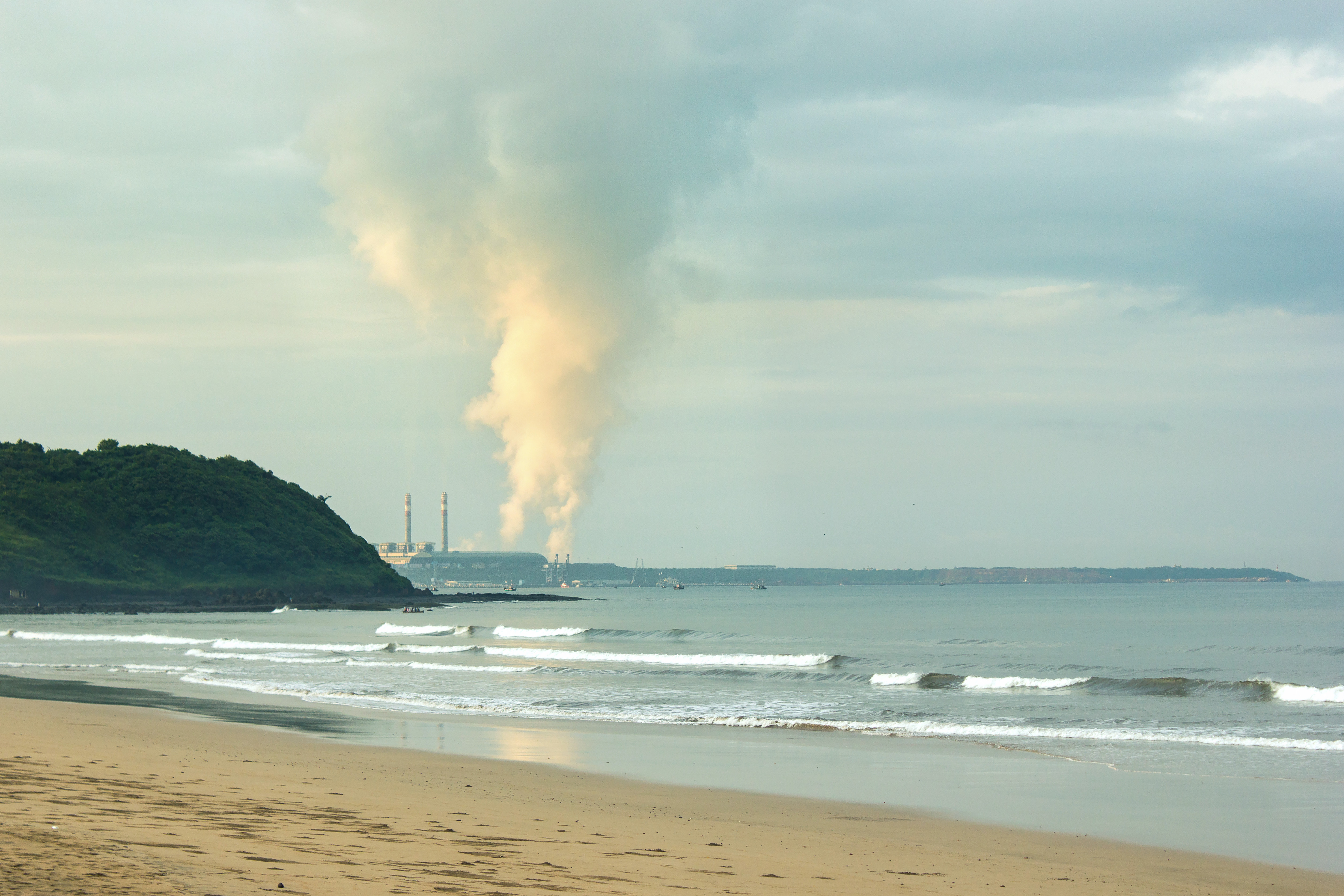 Day by day the fresh air of the environment is getting polluted because of the mixing of harmful materials. Such polluted air is causing health problems, diseases and death. Air pollution is one of the most important environmental issues which requires to be noticed and solved by the efforts of all of us.